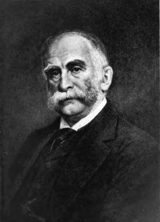 Portrait of New York City lawyer James Coolidge Carter after an etching on copper plate by James S. King, copyrighted and published by Charles Barmore of New York.